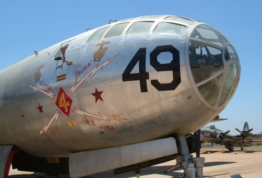 The front of B-29A Superfortress Flagship 500 at the March Field Air Museum, July, 2005.